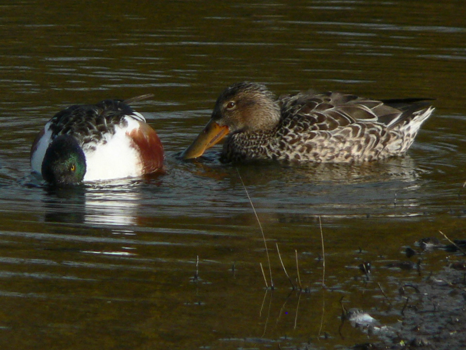 Northern Shoveler